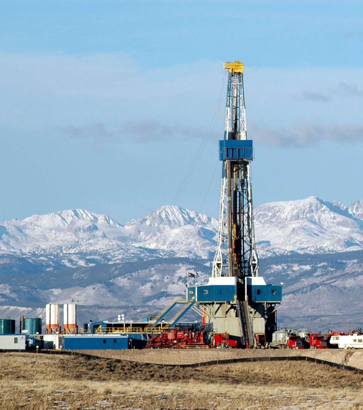 A natural gas drilling rig on the Pinedale Anticline, just west of Wyoming's Wind River Range.